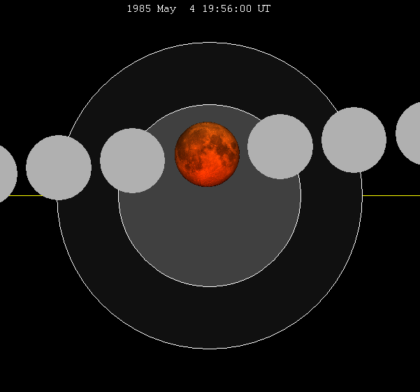 May 1985 lunar eclipse chart of moon's path through the earth's shadow. thumb